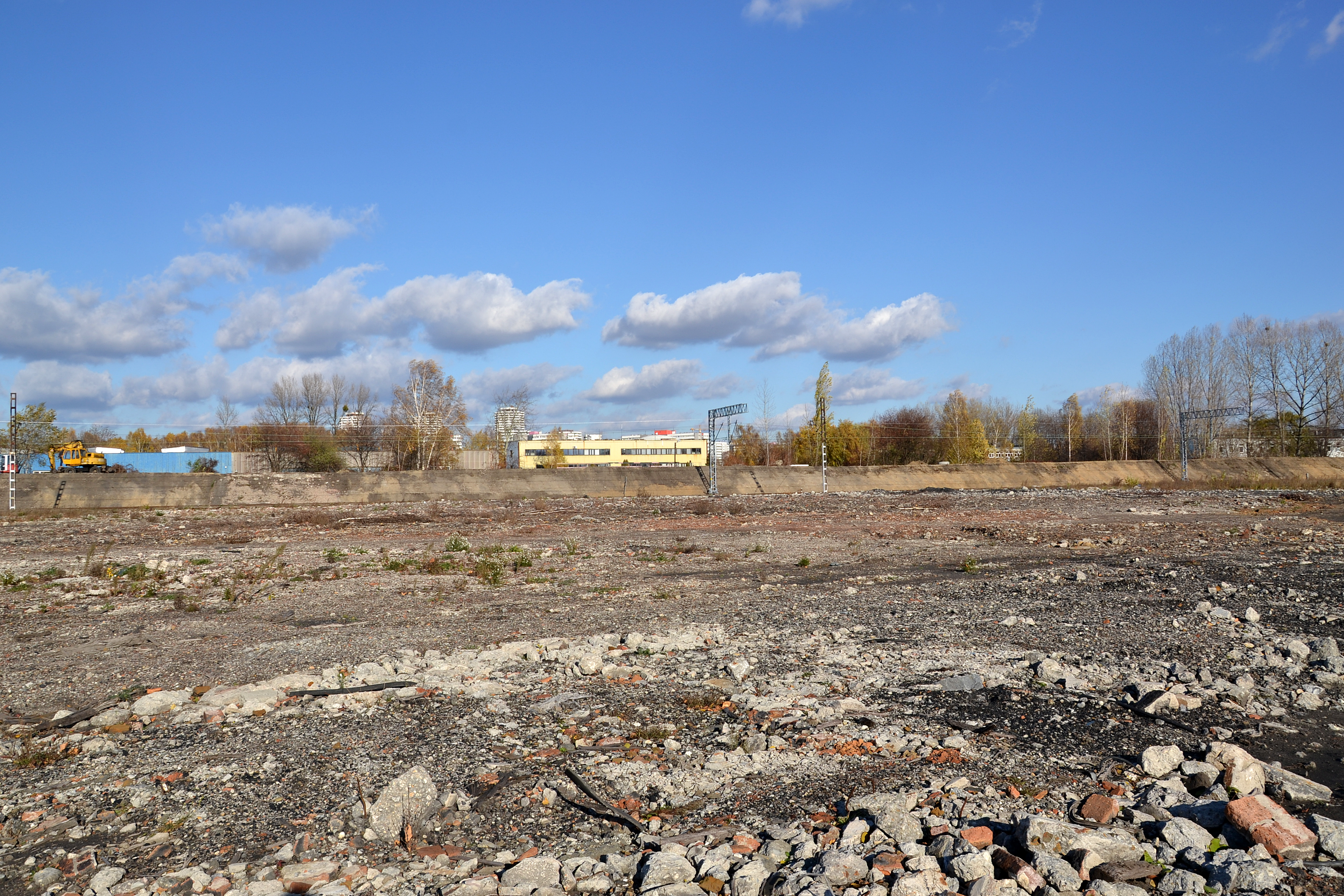 Empty place after the destroyed coal mine Kleofas in Katowice (Kattowitz), Upper Silesia